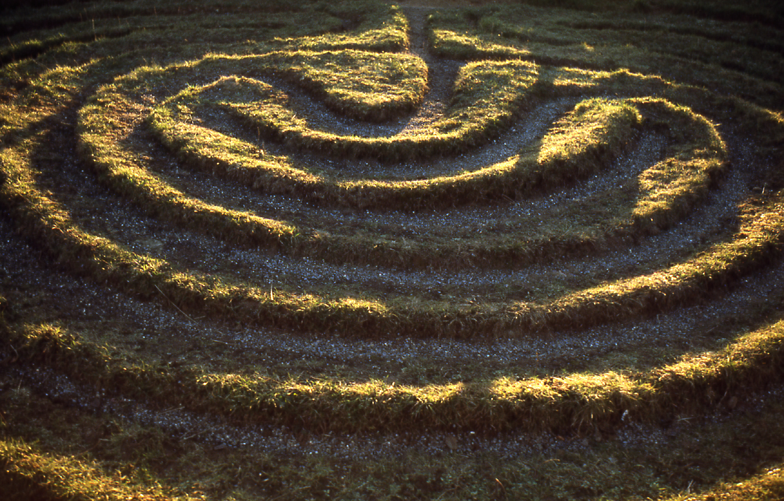 City of Troy. The only surviving example in the North Riding of this type of grass maze. It is located by a roadside in the Howardian Hills of Yorkshire, England, near the villages of Dalby, and Skewsby, close to Sheriff Hutton, a few miles north of York. It is at grid reference SE6252871886 in Bonnygate Lane / High Lane. For some reason neither the Landranger map nor the Victorian Ordnance Survey map mark it. See the Megalithic Portal. Another image from Geograph.